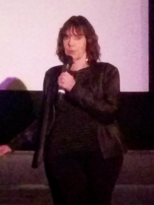 Bette Gordon at a Q&A session for Variety at Cinefamily in Los Angeles, California, United States